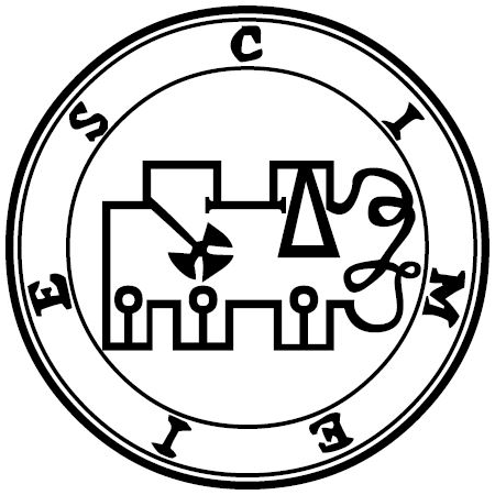 Cimeies seal, THE BOOK OF THE GOETIA OF SOLOMON THE KING (1904)